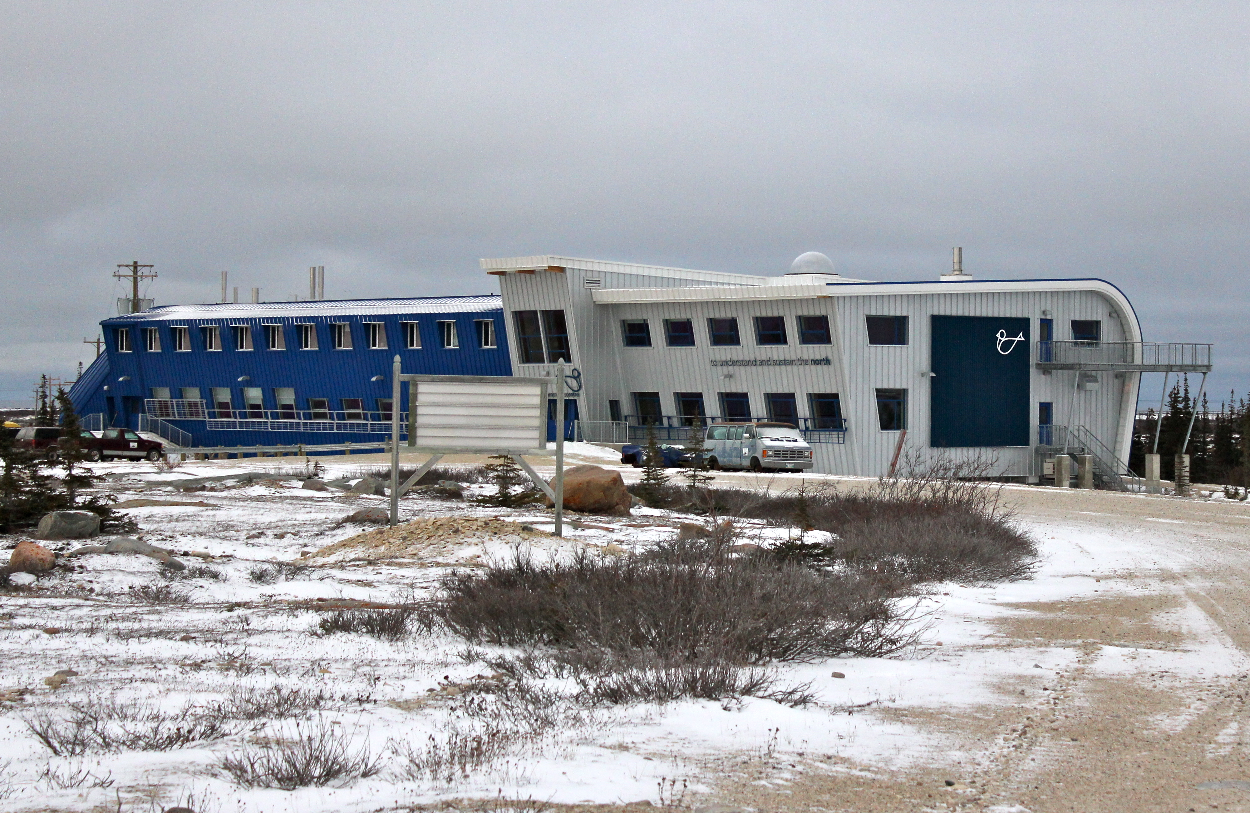 "an independent, non-profit research and education facility located 23 km east of the town of Churchill, Manitoba."